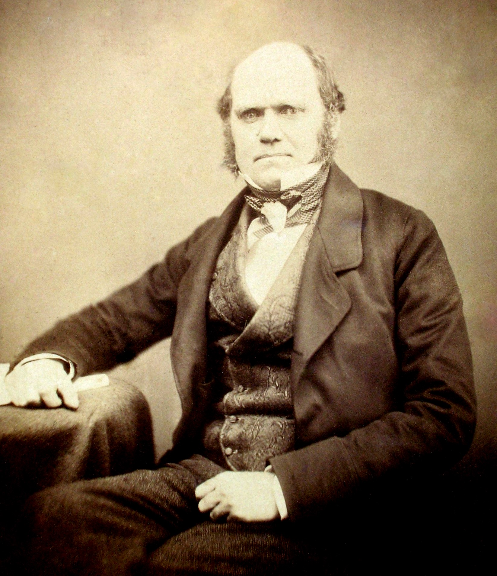 Photograph of Charles Darwin by Maull and Polyblank for the Literary and Scientific Portrait Club (1855)